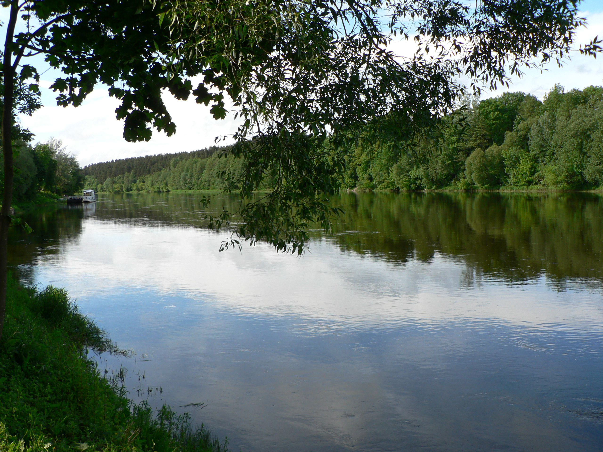 Neman river in Druskininkai, Lithuania.